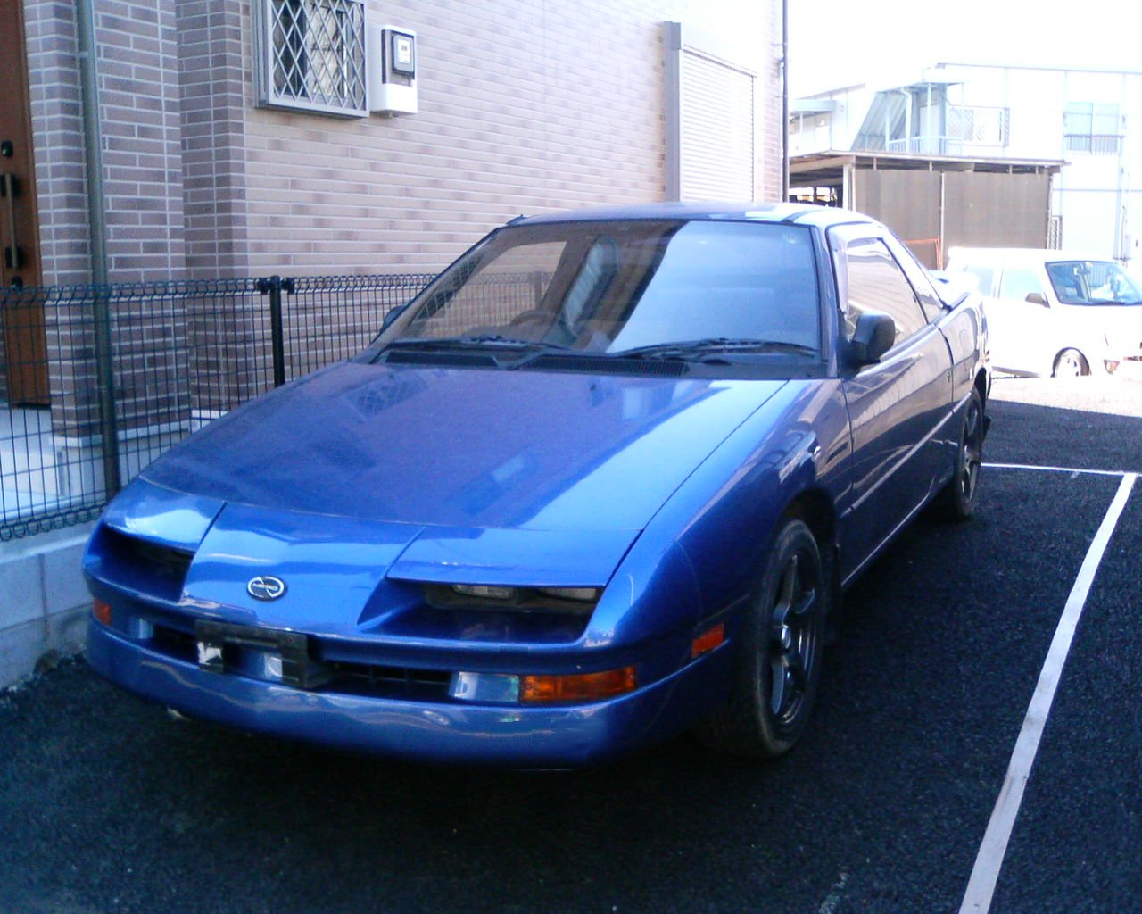 Japanese market Isuzu PA Nero, note folded mirrors, and right-hand drive steering wheel